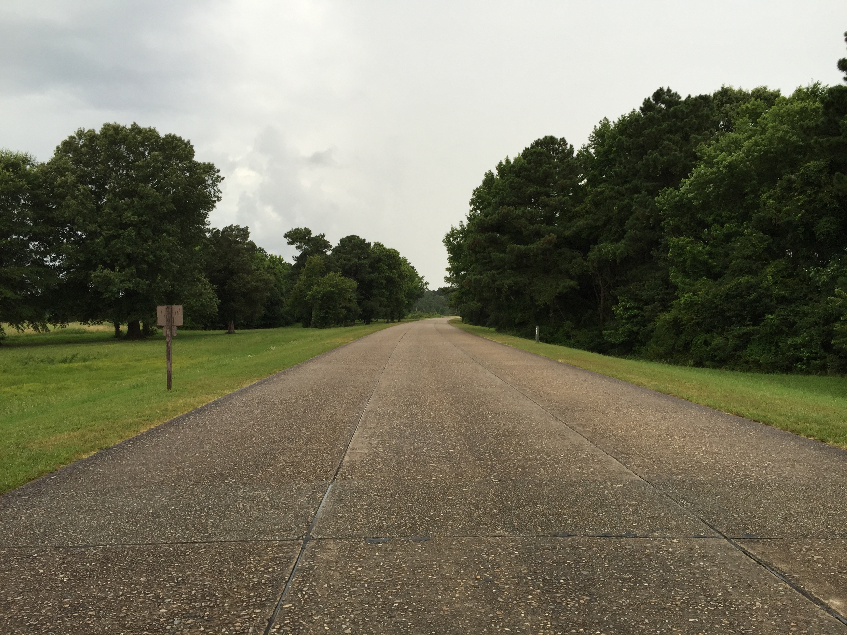 View west along Colonial Parkway near Treasure Island Road (Virginia State Secondary Route 617) in James City County, Virginia